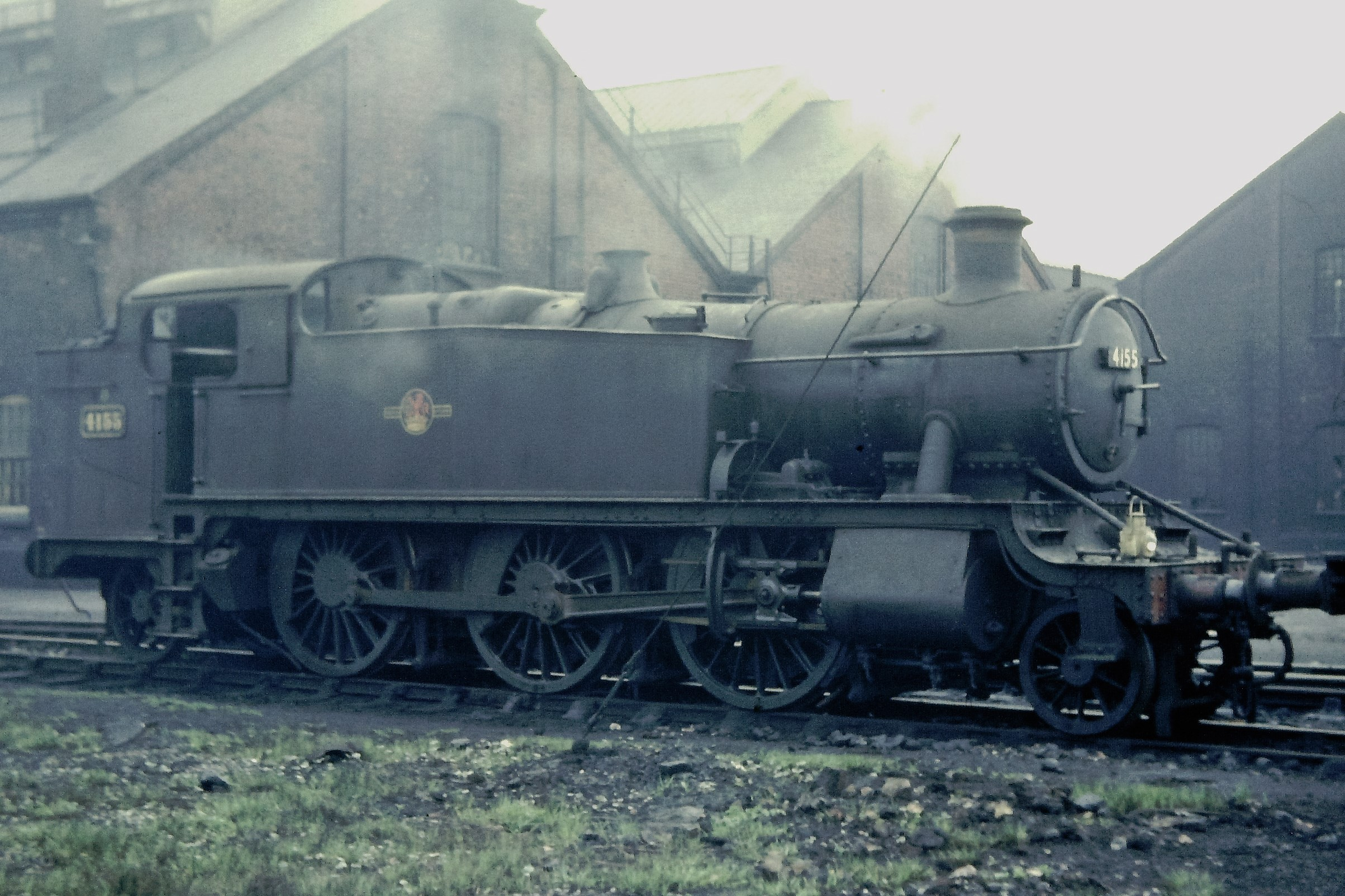 GWR Class'5101' 4155 Tyseley MPD 1964 Photograph by Pete Armstrong with his permission.